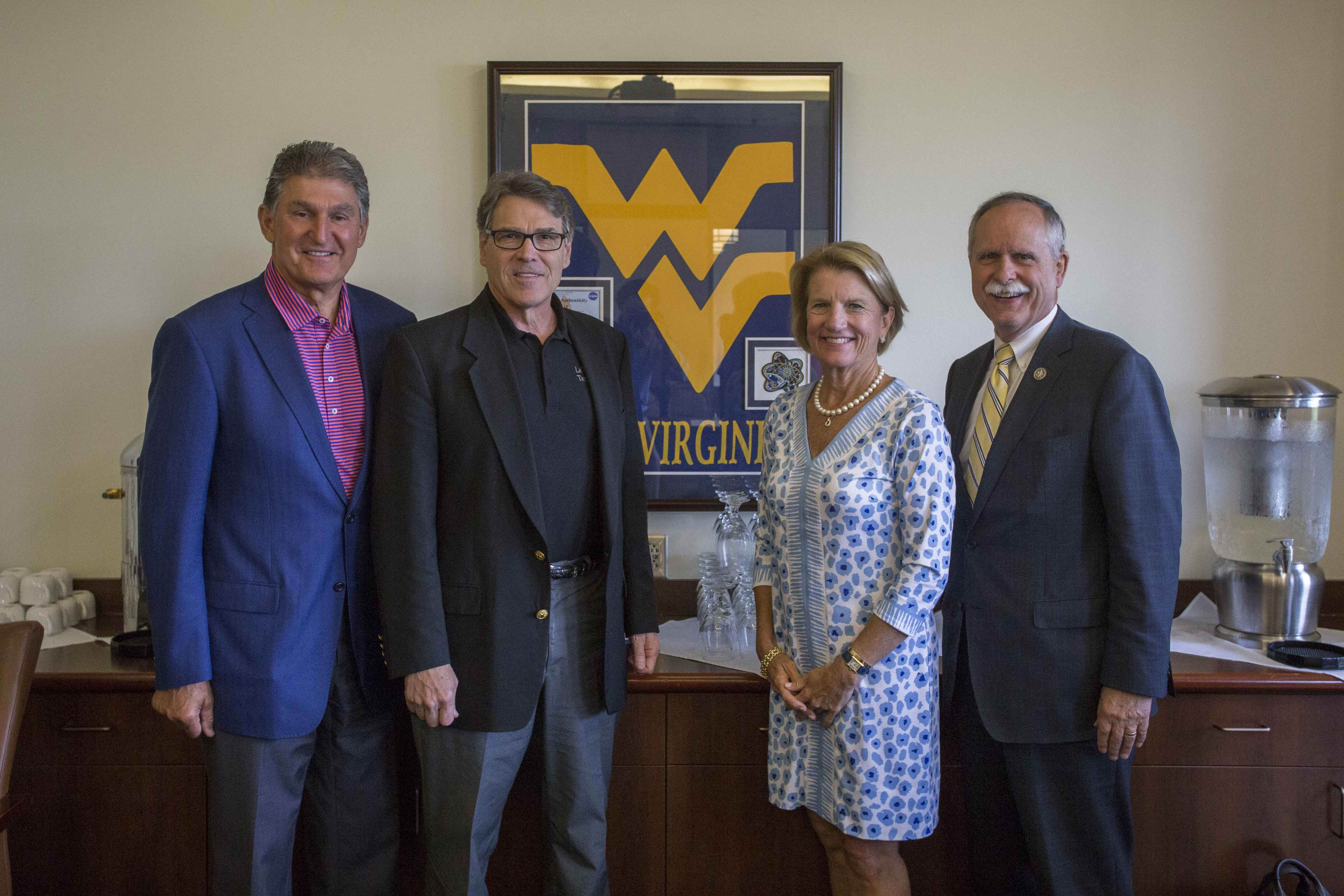 Photo Simon Edelman, Energy Department